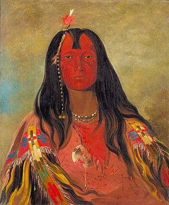 Description H'co-a-h'co-a-h'cotes-min George Catlin painted this portrait of No Horns on His Head and Rabbit’s Skin Leggings (see 1985.66.145), both Nez Perce braves, as a pair and described his subjects in these words: “These two men, when I painted them, were in beautiful Sioux dresses . . . [they] were part of a delegation that came across the Rocky Mountains to St. Louis . . .” Catlin noted that he had traveled two thousand miles with these braves “towards their own country,” and during that time had become “much pleased with their manners and dispositions.” (Catlin, Letters and Notes, vol. 2, no. 48, 1841; reprint 1973)